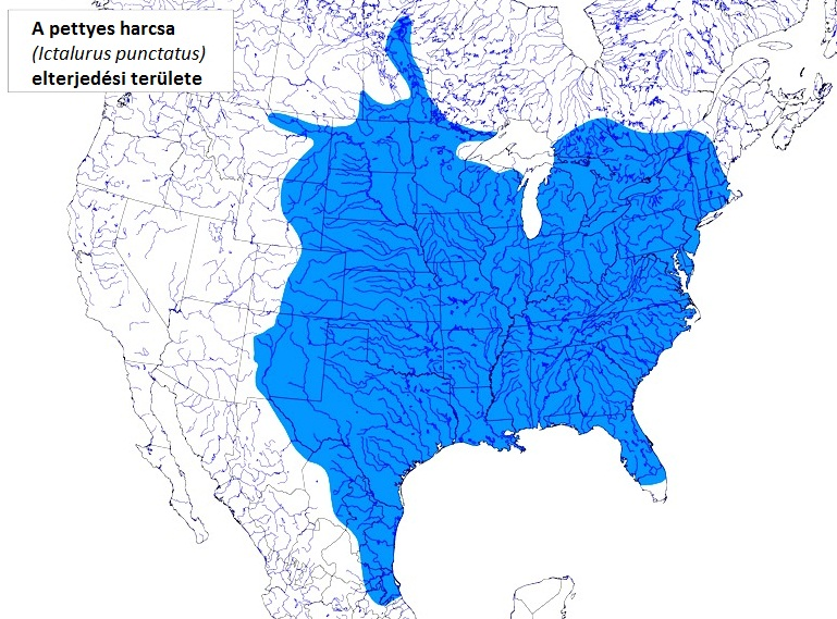 Distribution map of channel catfish (Ictalurus punctatus)